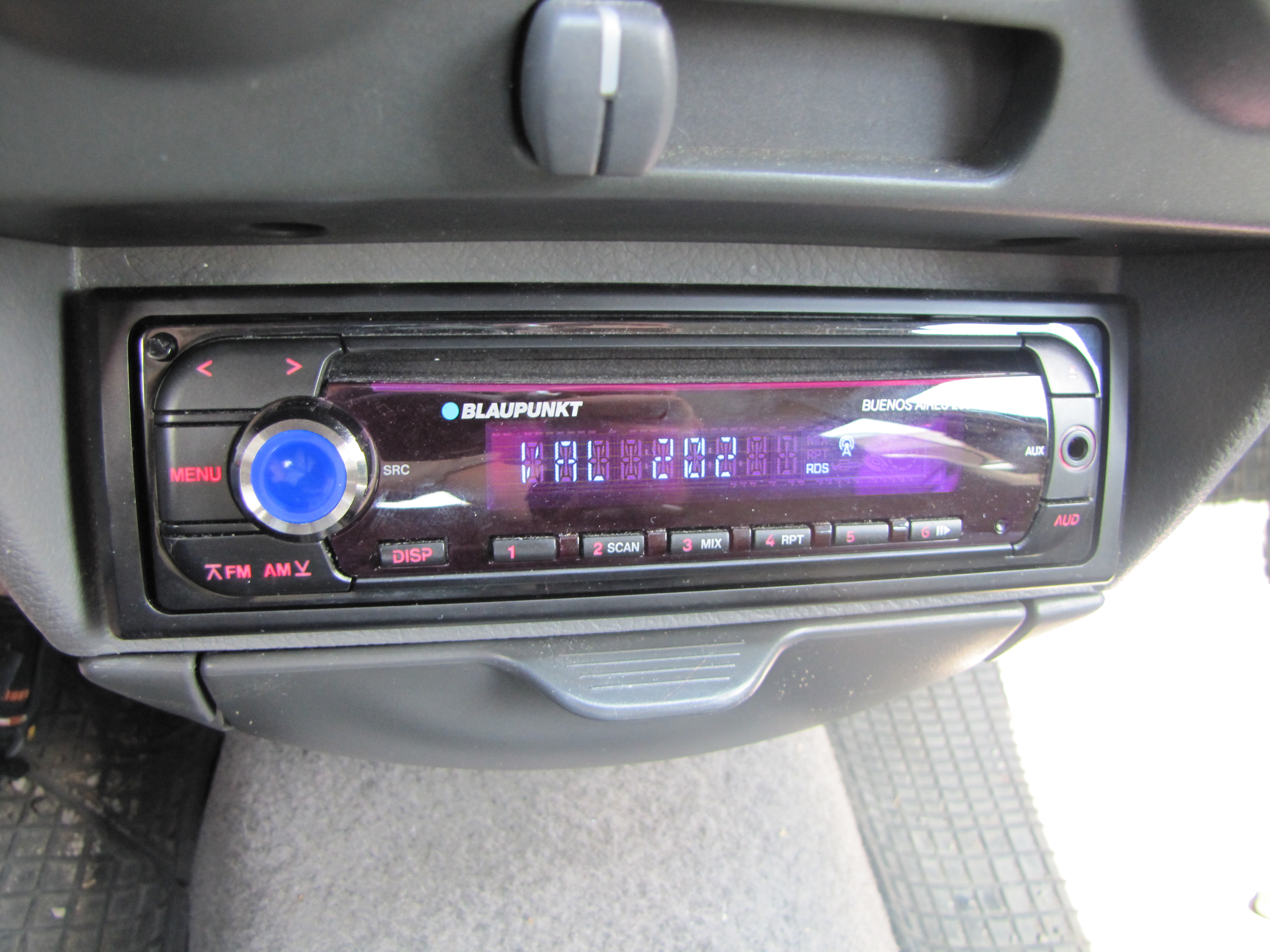 Val 202 on the Blaupunkt Buenos Aires 200 head unit (car radio).